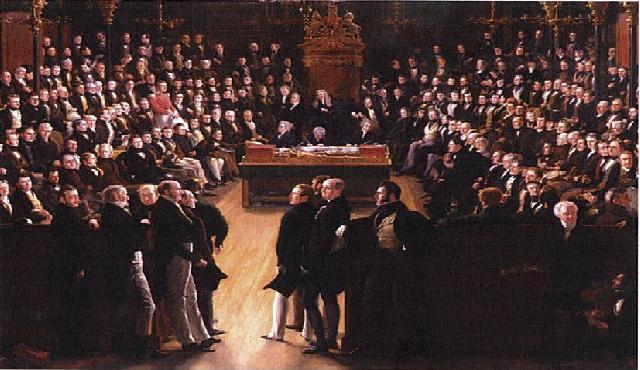 Detail from the picture commemorating the passing of the Great Reform Act in 1832. It depicts the first session of the new House of Commons on 5 February 1833 held in St Stephen's Chapel which was destroyed by fire in 1834.